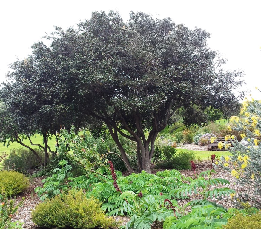 Diospyros whyteana - Cape Ebony tree